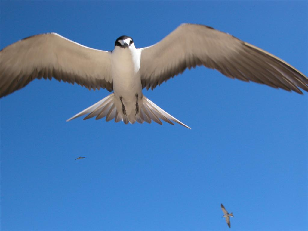 Sooty Tern Onychoprion fuscatus